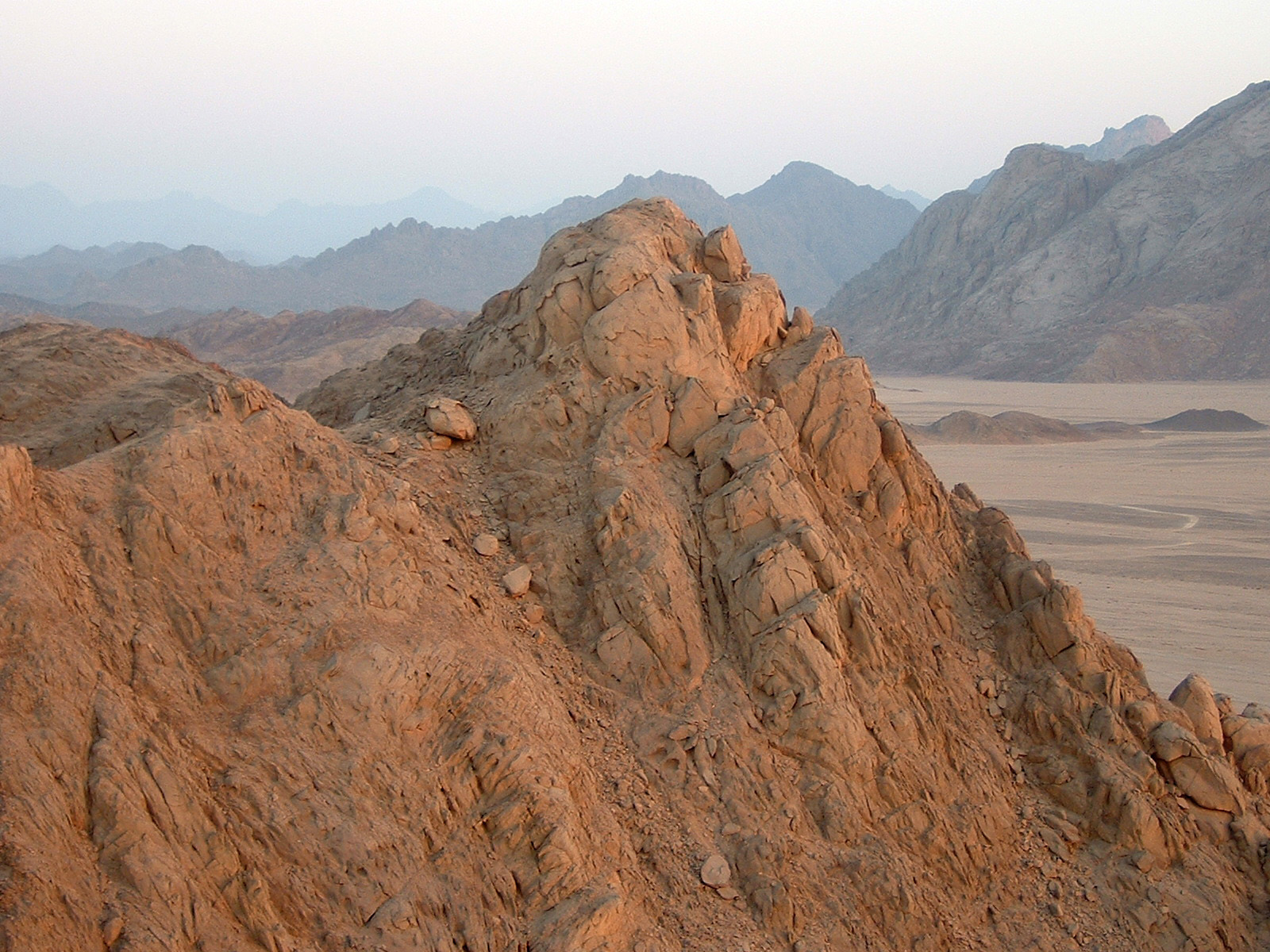 Mountains in the desert near the Red Sea